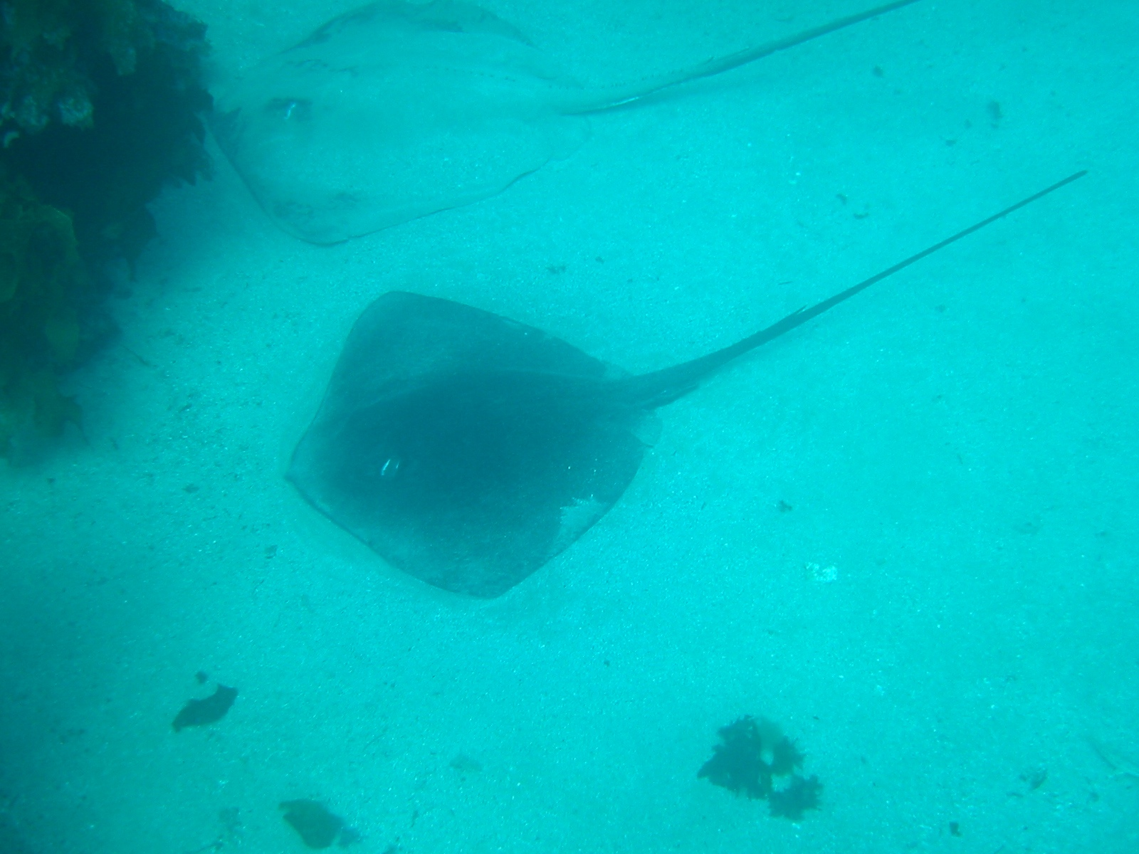 Black stingrays (Dasyatis thetidis) off Poor Knights Island, New Zealand.